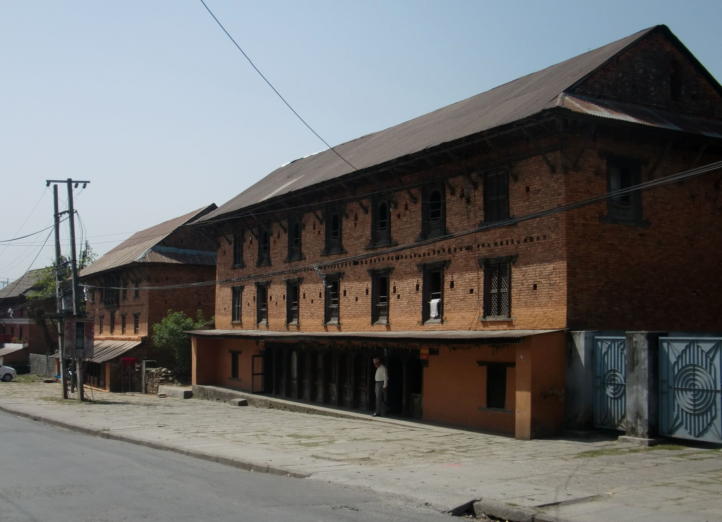 Old bazar at Pokhara, earlier Tibetan trade city